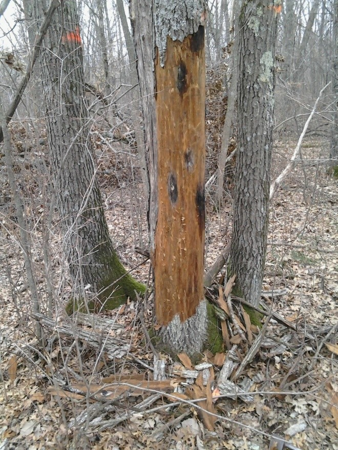 Red oaks no longer infectious are called stage IV or, days later, stage V. Wood underneath bark turned caramel color within the past month, sporulation occurred 2-3 weeks ago and now there are several dark spots on trunk where spore mats had been growing.